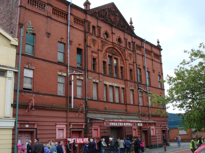 The Theatre Royal in Hyde as it is today